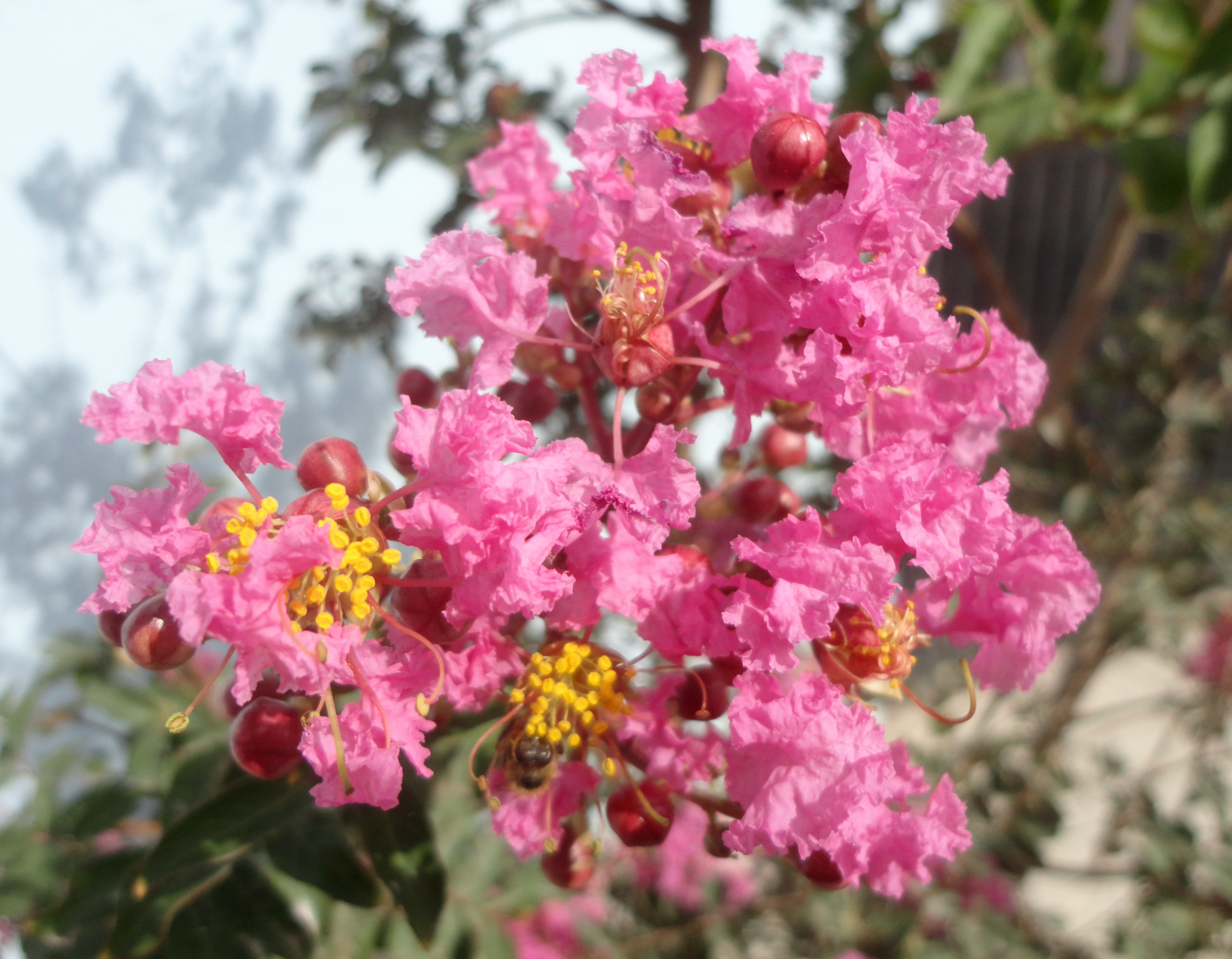 Lagerstroemia indica (Familyː Lythraceae).